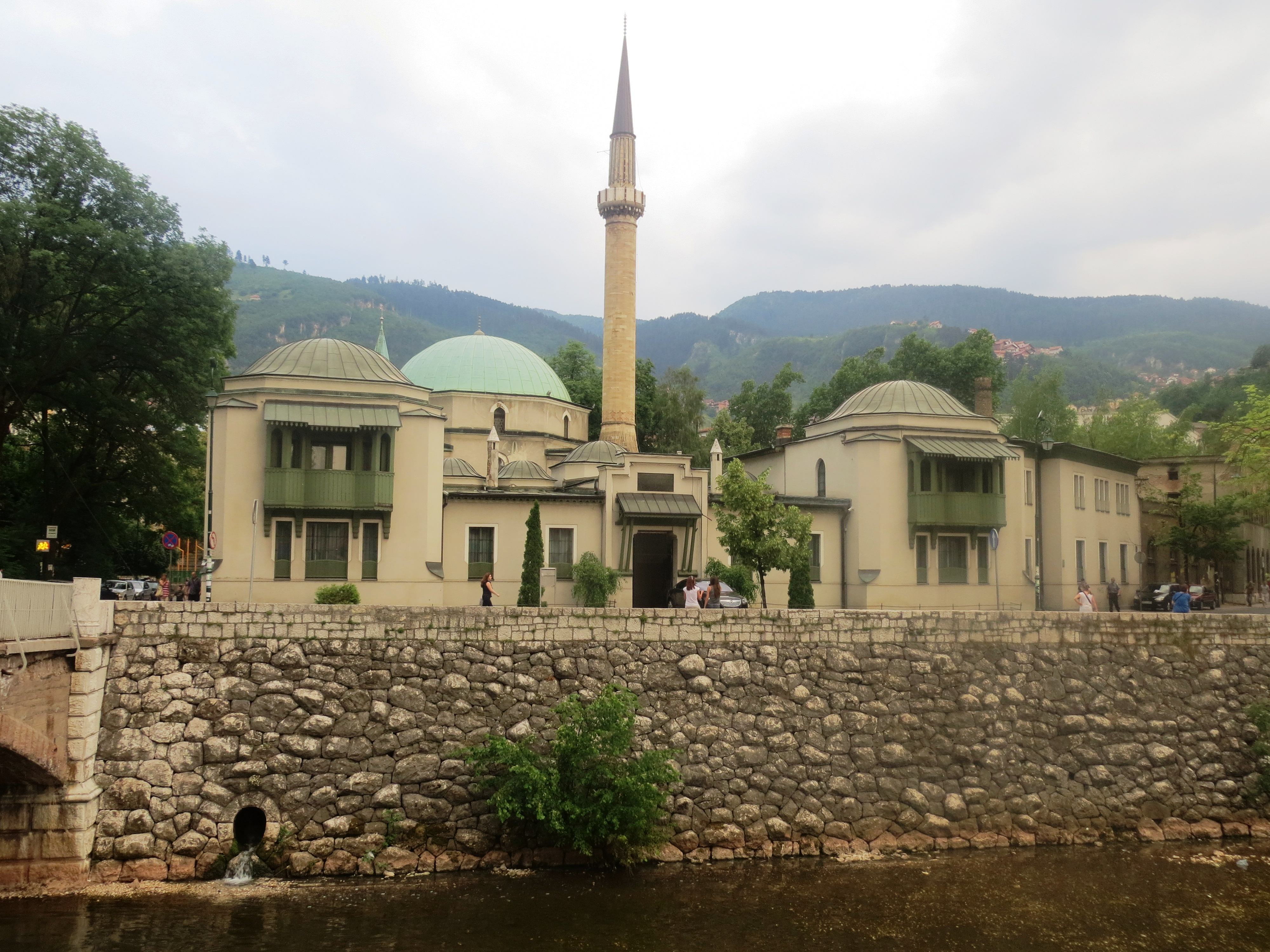 Old part of the city of Sarajevo, Bosnia-Hercegovina. All the buildings are at least 100 years old, thus not violating the laws on Freedom-of-Panorama in the country.